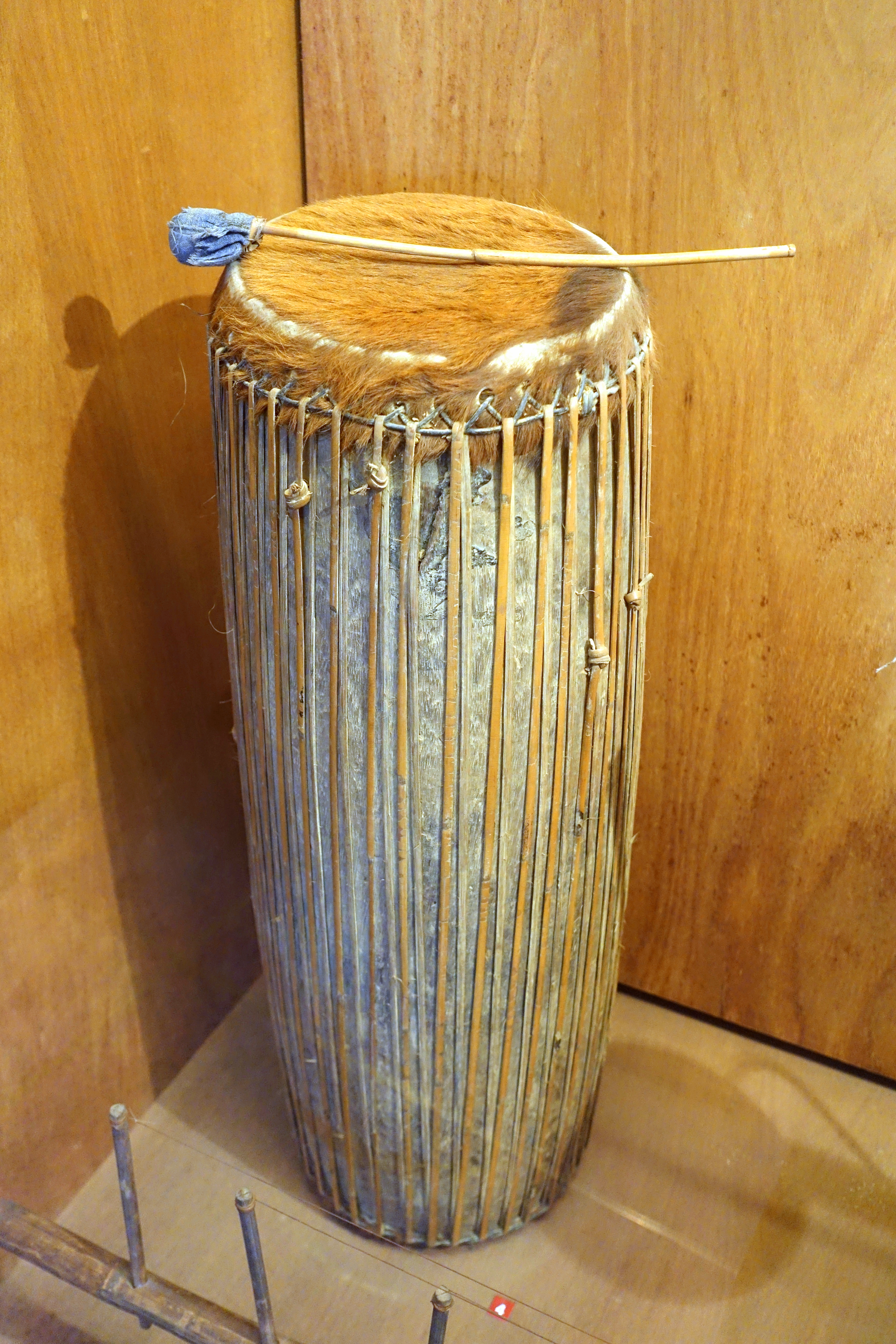 Exhibit in the Vietnam Museum of Ethnology - Hanoi, Vietnam.